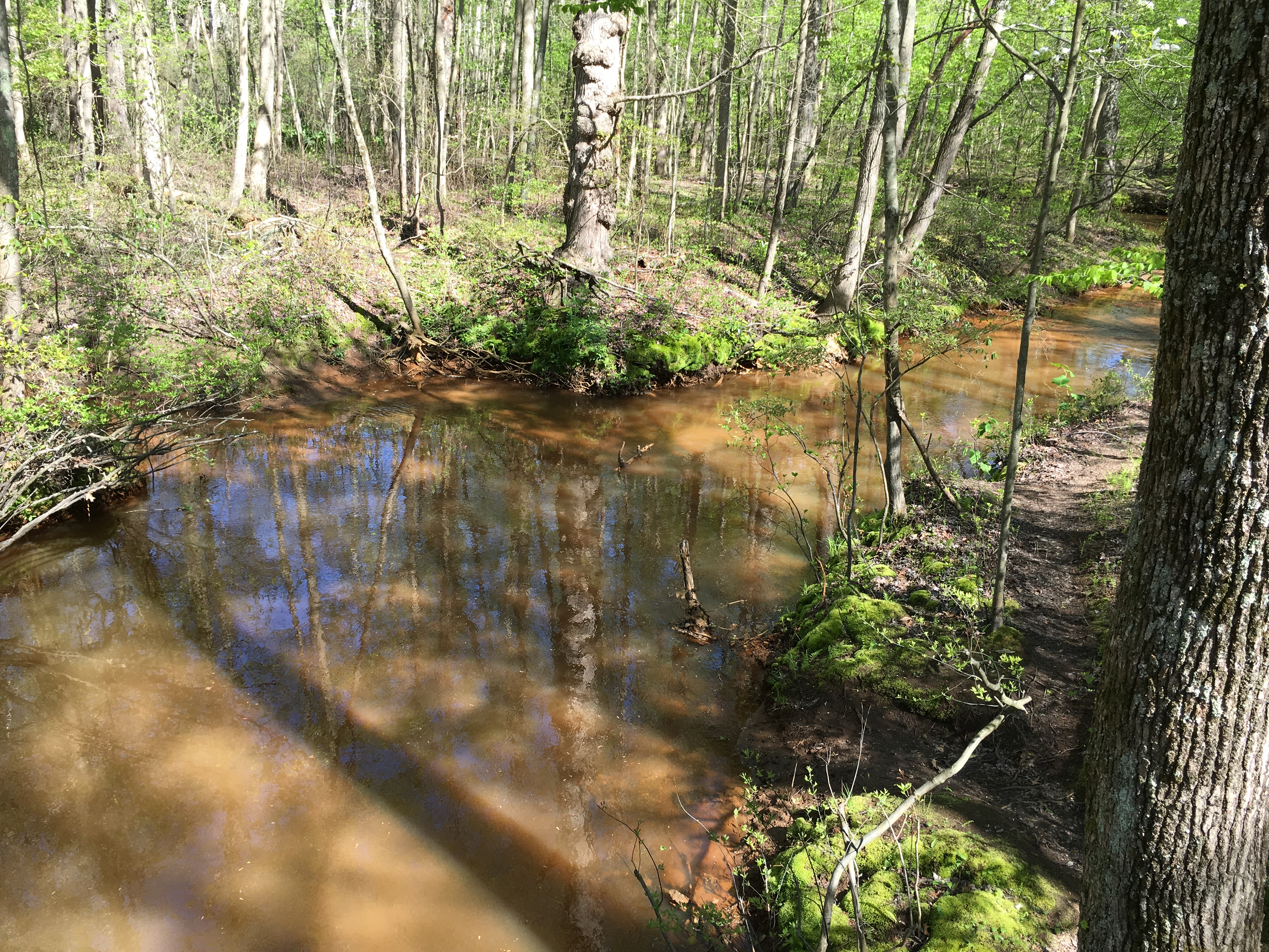 The Shark River, as seen from a footbridge over it at Shark River County Park, which straddles Neptune Township and Wall Township in Monmouth County, New Jersey.